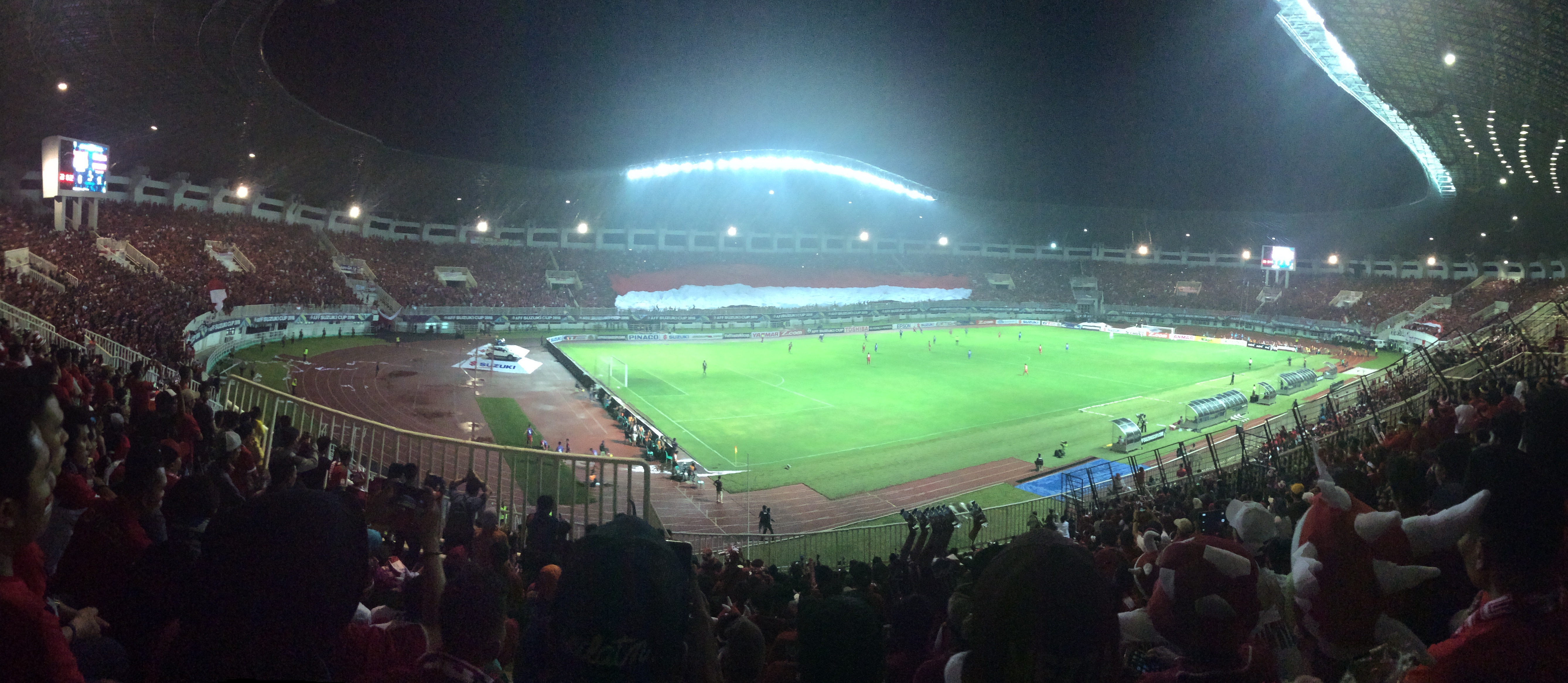 Pakansari Stadium during 2016 AFF Suzuki Cup match between Indonesia vs Thailand